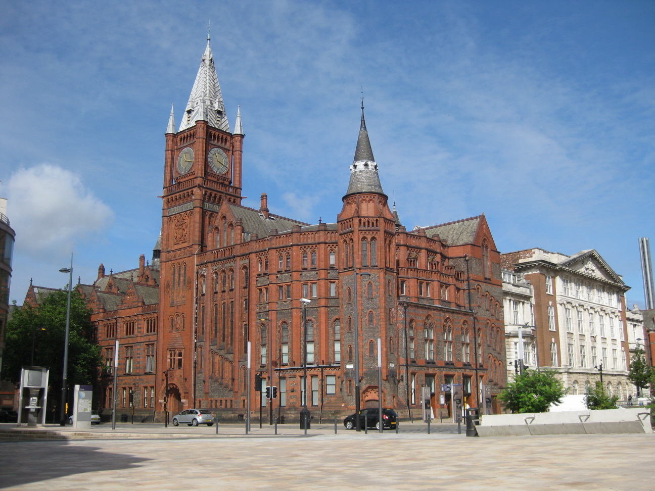 The Victoria Building, Brownlow Hill, Liverpool. Housing the Victoria Gallery and Museum. Design by Alfred Waterhouse. Completed 1892.